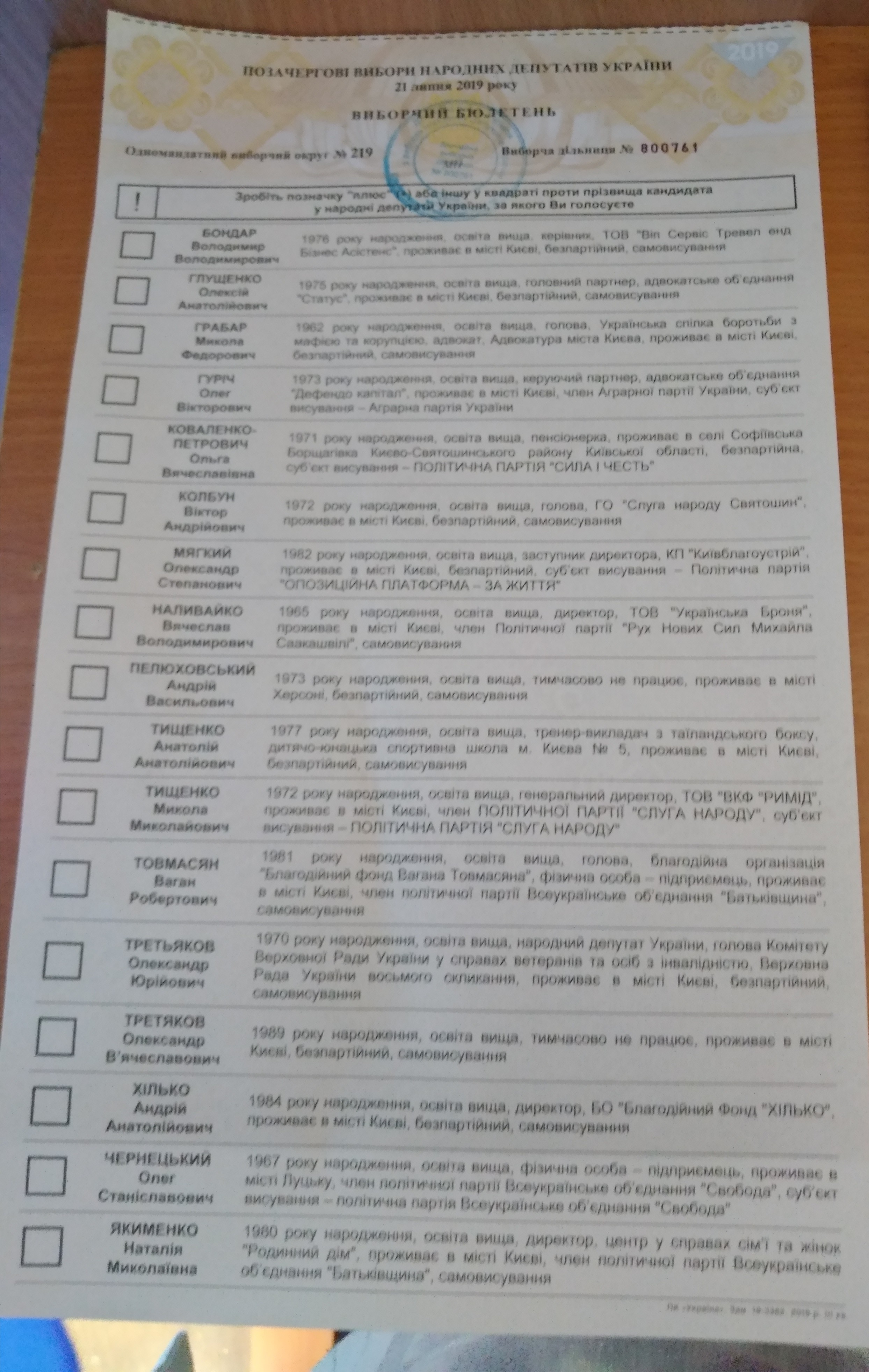 Voting ballot of the Ukrainian Parliamentary Election on July 21, 2019, district 219